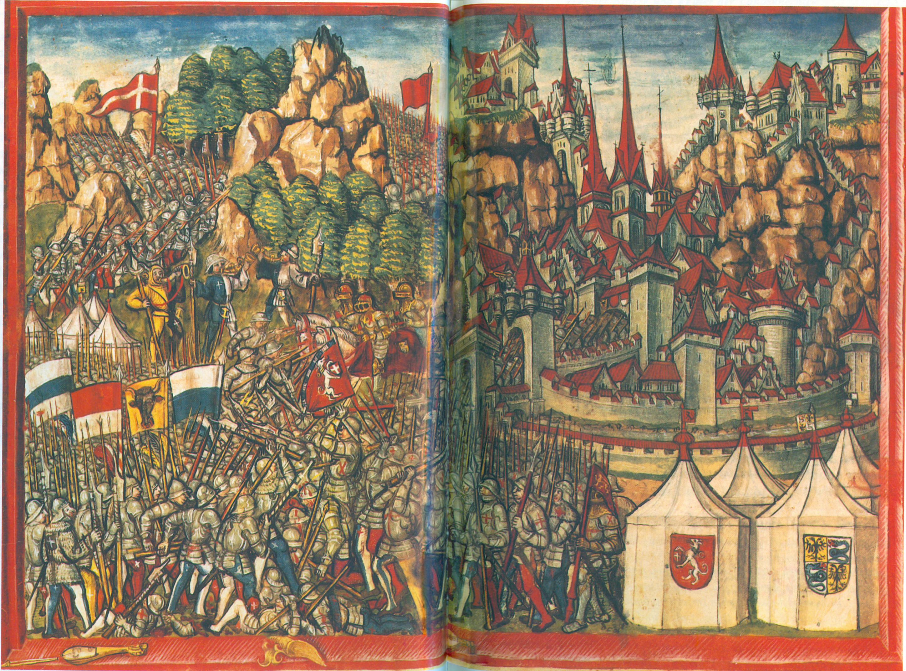 Battle of Arbedo (1422) in the depiction of the Lucerne chronicle (1513). The Swiss Confederates are shown as marching under their cantonal flags (Lucerne, Uri, Unterwalden, Zug), with the white cross attached to their garments. Reinforcements of Schwyz are shown arriving in the top left, with a red triangular flag showing the white cross, and the cantonal flag of Schwyz visible at the top right of the left panel. The troops of Schwyz were too late to participate in the battle. Even further behind, and not shown in the image, were the reinforcements sent by Zürich. The Uristier blowing the Harschhorn (blowing horn) is shown, wearing the bull horns, alongside the horn blowers of Lucerne and Zug. All three men are wearing the Swiss degen, and holding polearms in their right hands, the men of Lucerne and Zug are holding halberds, while the halberd drawn for the Uristier was apparently revised to instead represent a spear. The Milanese troops are wearing red crosses as emblems. They are shown as fighting under the banner of condottiere Facino Cane (a dog rampant, holding an inescutcheon with a Savoy cross (later attested as a red-on-white cross[1]). This may be an anachronism on the part of Schilling, as Cane died in 1412, and the actual condottiere at Arbedo was Francesco Bussone, who had, however, himself long served under Cane. The ducal flag of Milan is also shown, but obscured by the folding page.